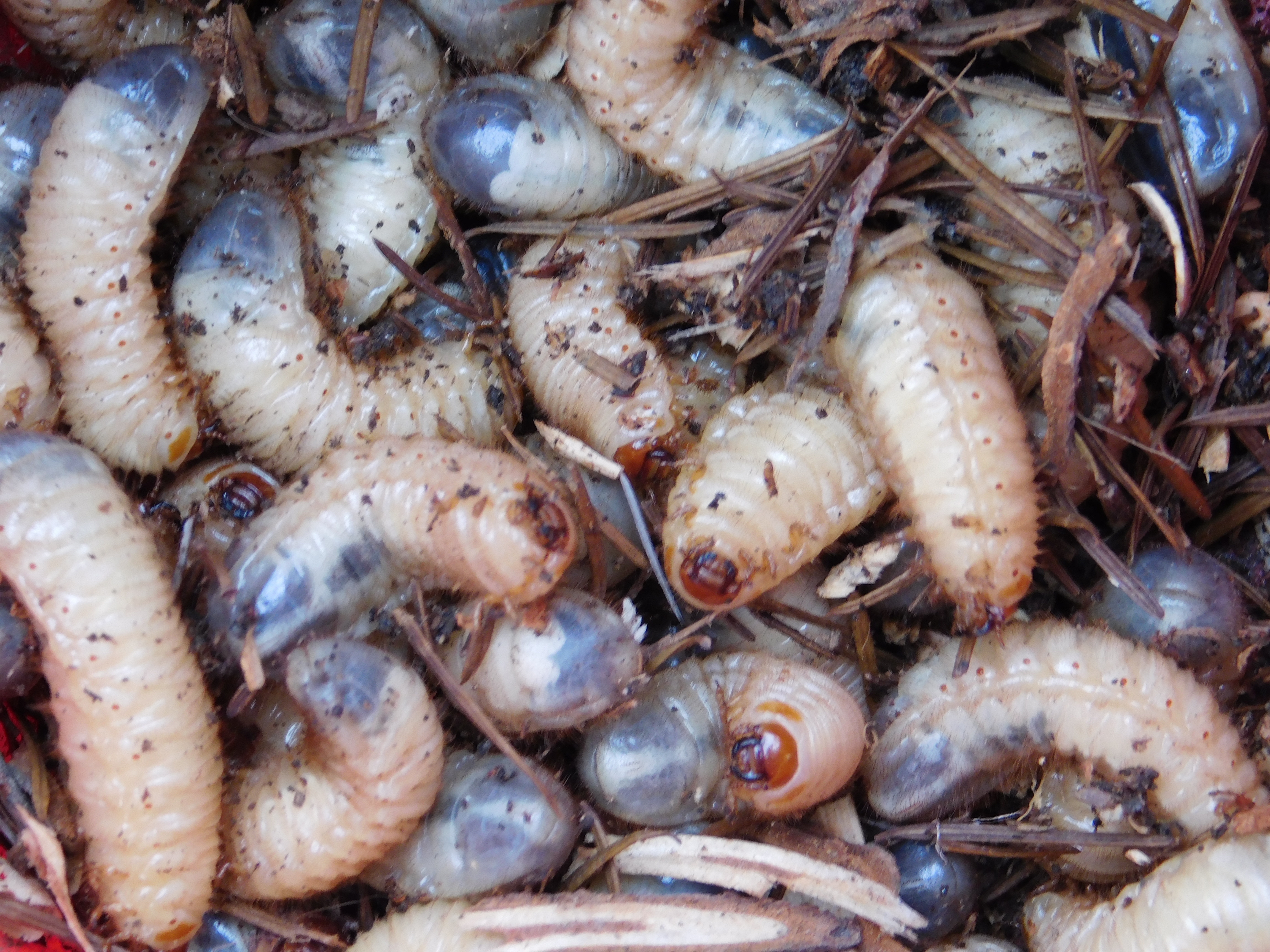 Grubs of Amphimallon solstitiale